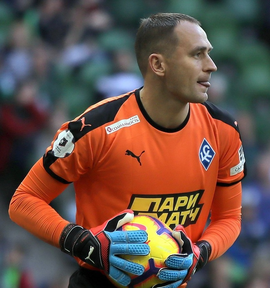 Sergei Ryzhikov with PFC Krylia Sovetov Samara in a game against FC Krasnodar.